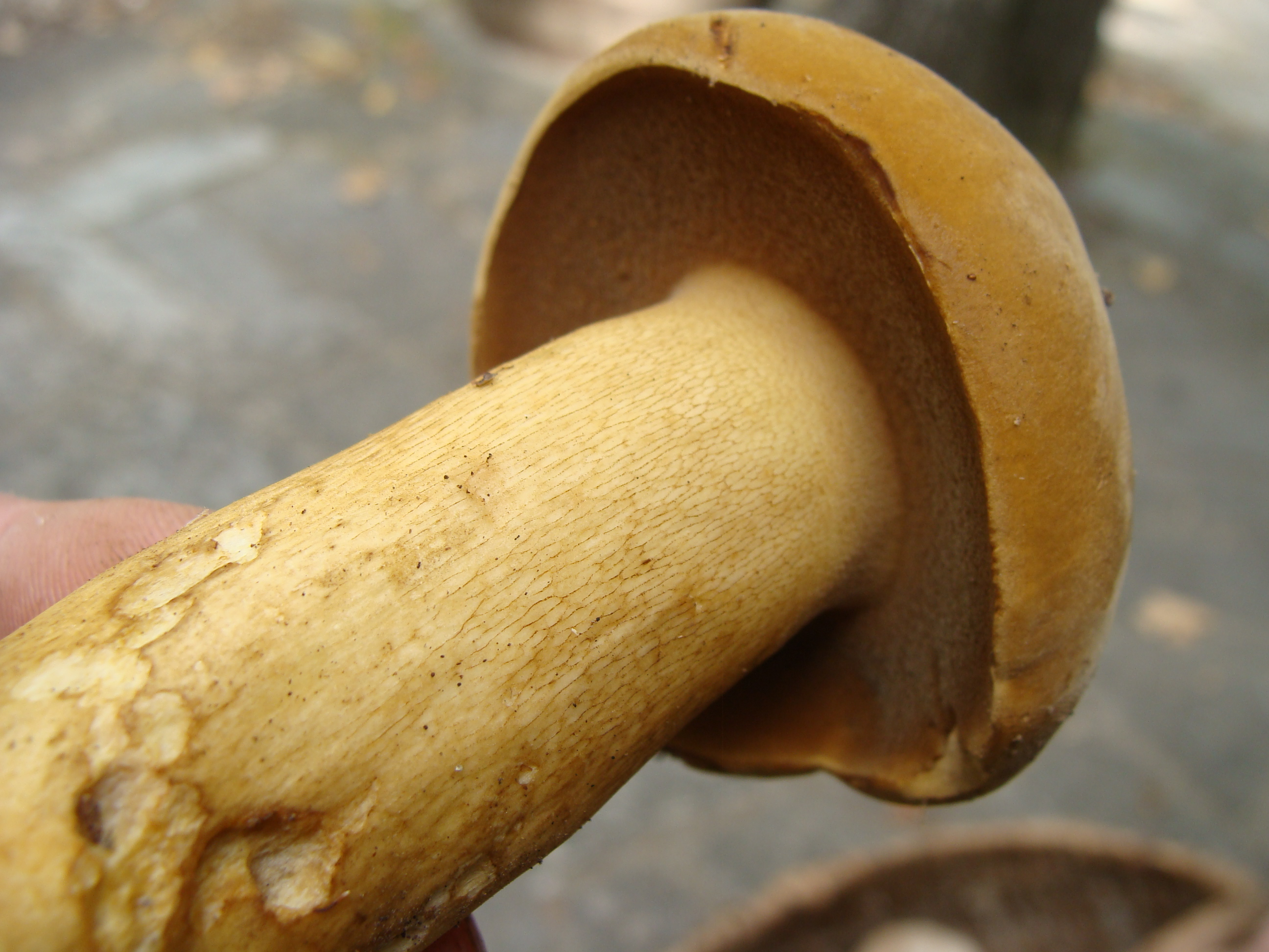 The underside of a fruit body of the bolete fungus Tylopilus tabacinus (Peck) Singer. Specimen collected in Millstream Gardens Conservation Area, Missouri, USA.